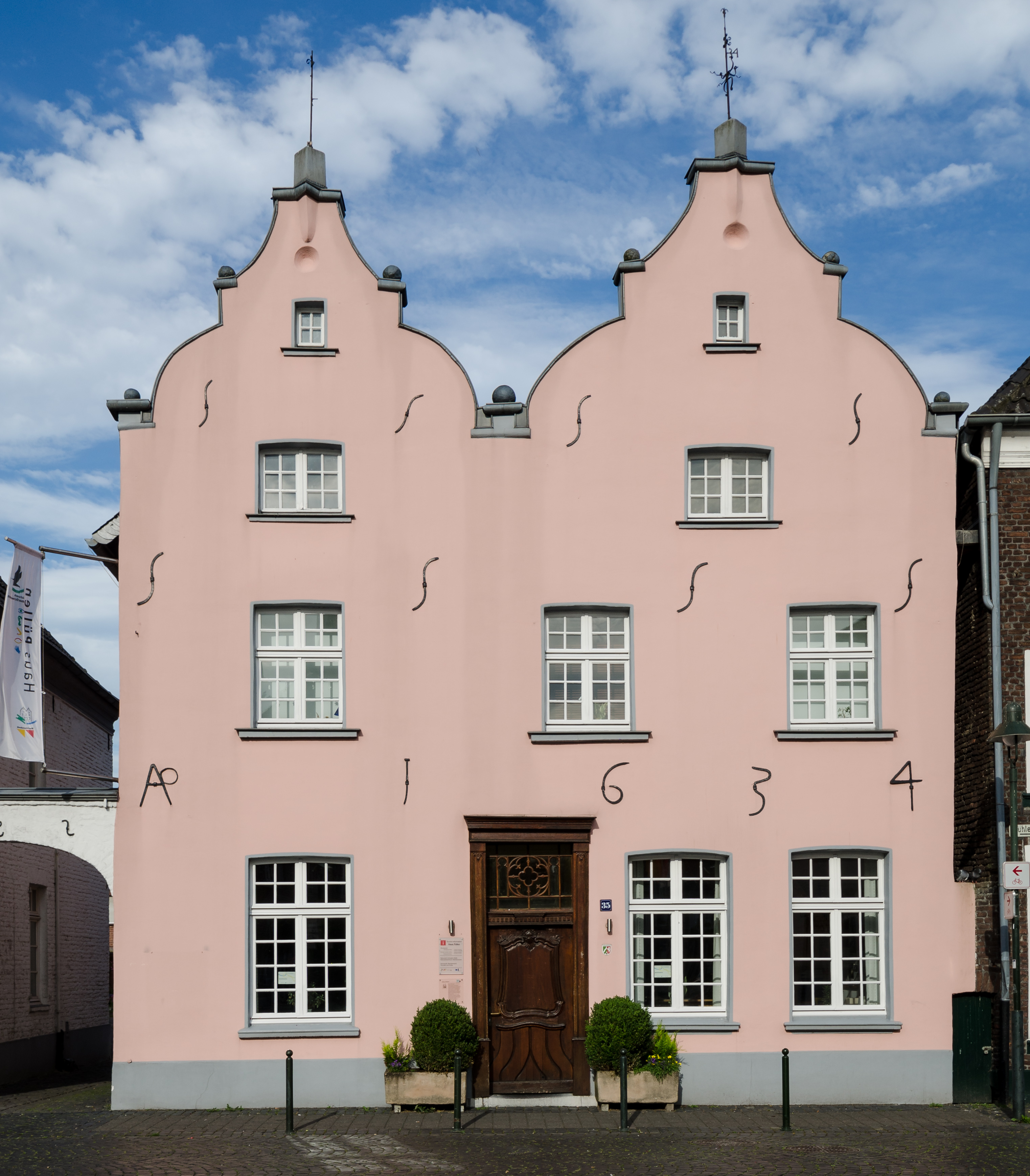 Puellen House, old building in Wachtendonk, Germany This image shows a heritage building in Germany, located in the North Rhine-Westphalian city Wachtendonk (no. 21).